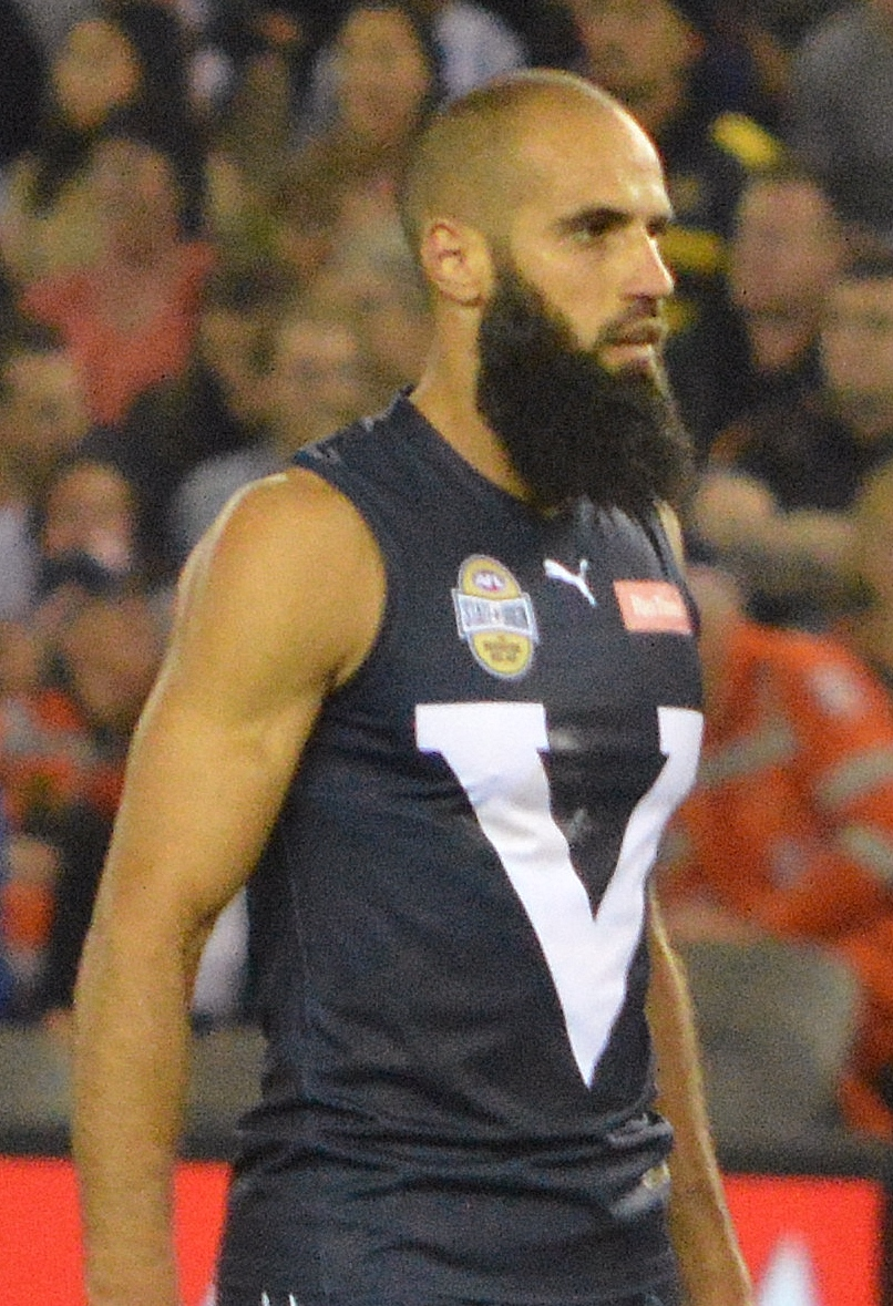 Bachar Houli at the AFL State of Origin for Bushfire Relief Match at Marvel Stadium in February 2020.